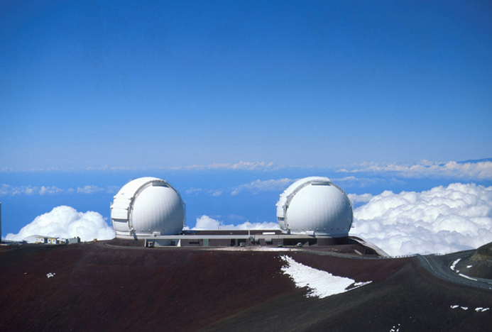 The twin Keck Telescopes atop Mauna Kea, Hawaii.